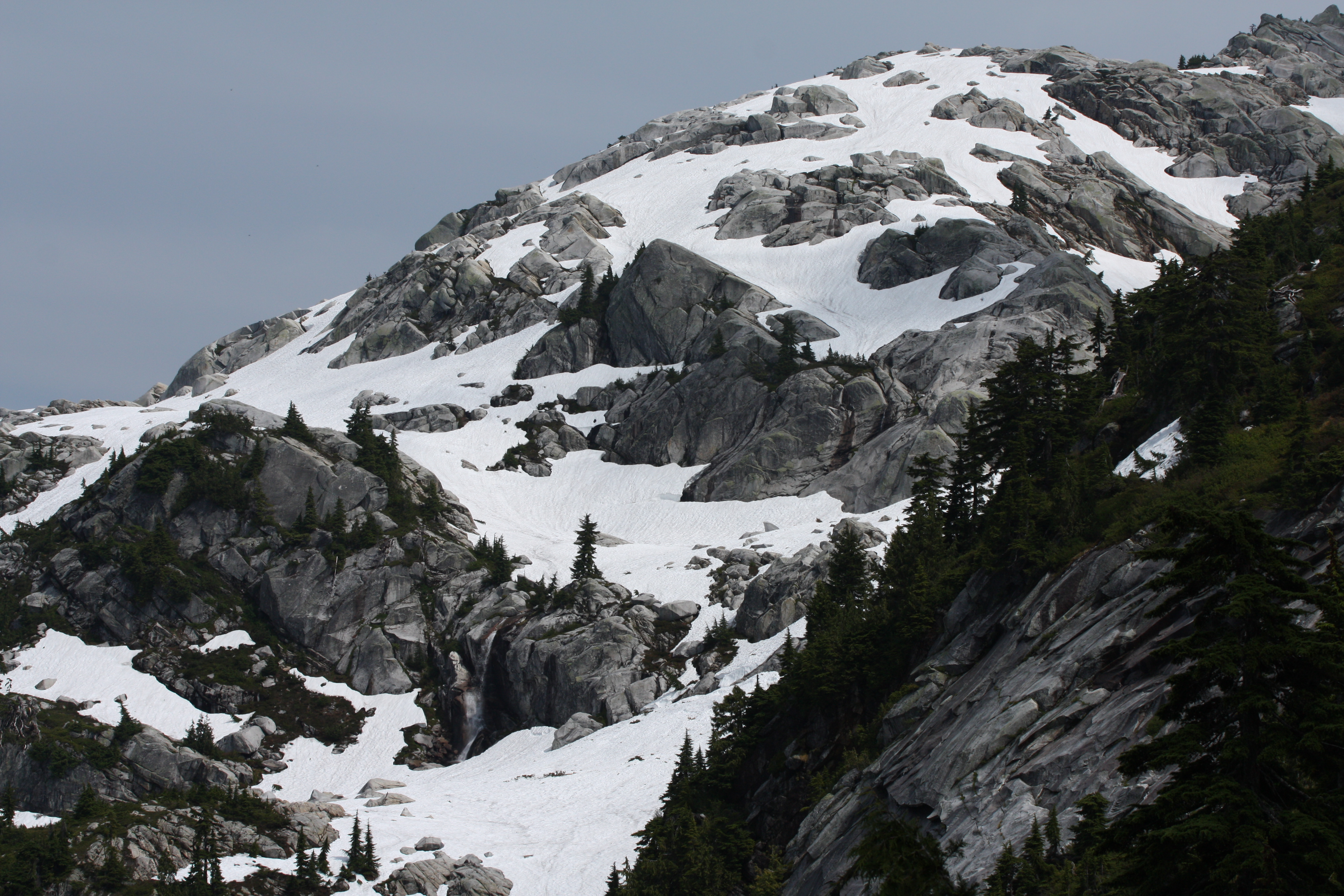 Mount Pilchuck (5340 feet, 1628 meters) north slope; snowfields; unnamed waterfall